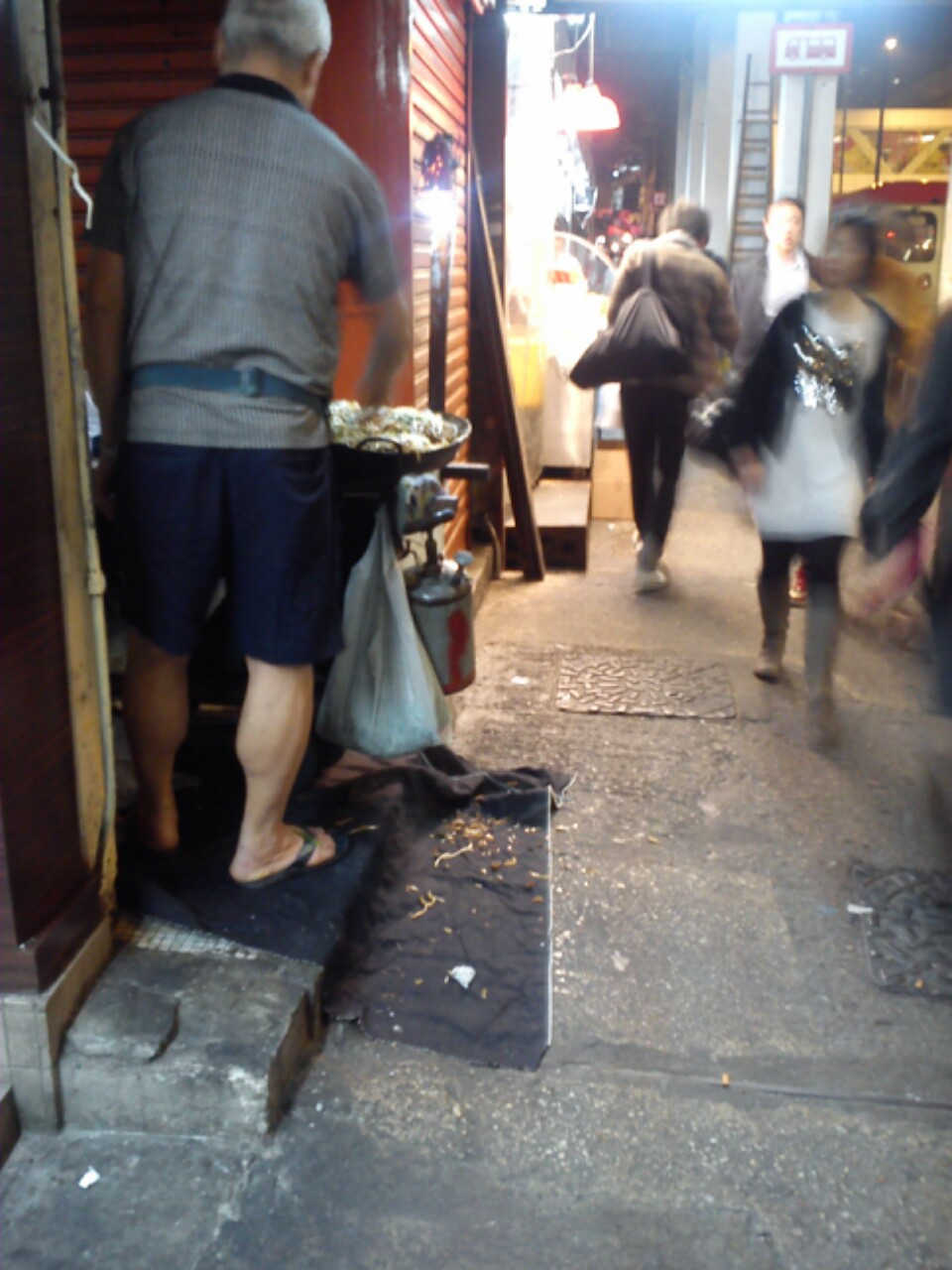 An owner of a cartful in Kwun Tong